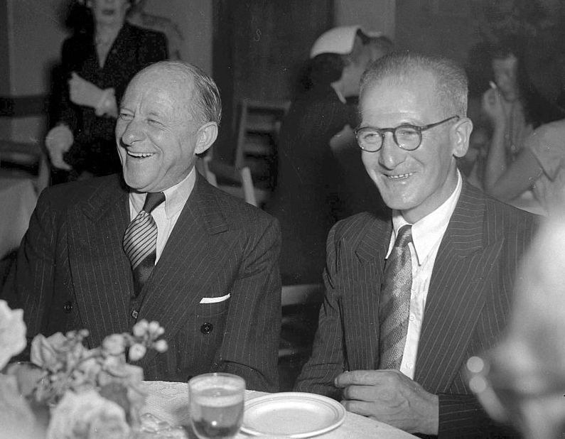 Bert Oldfield and Harold Larwood at Pickwick Club for a cricketers lunch, 14 January 1954. SMH Picture by HUGH ROSS